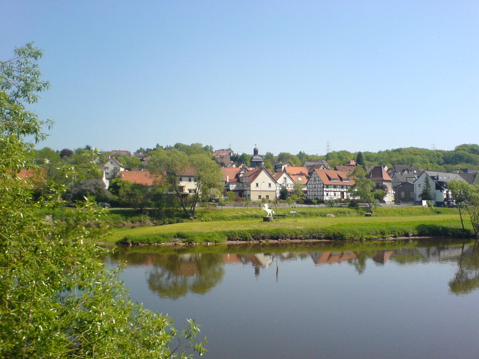 Village Speele with river Fulda. Speele is located between Kassel and Hann. Münden